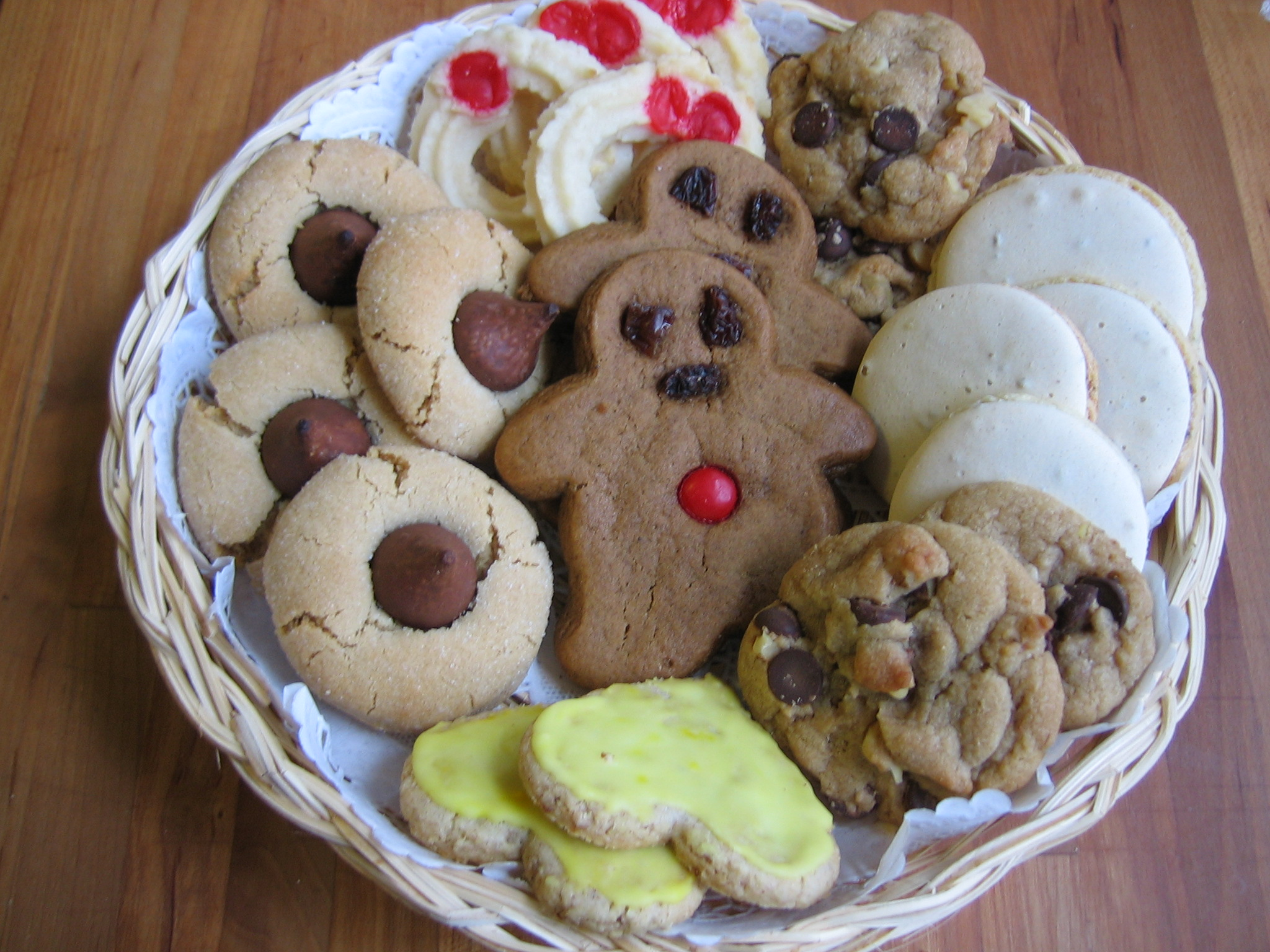 Plateful of Christmas Cookies